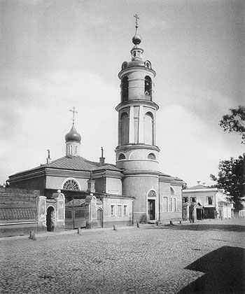 Moscow, St Spyridon of Tremithous Church in Kozie Boloto. Demolished in 1930.